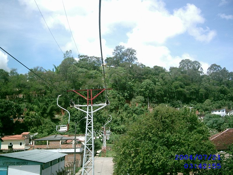 Teleferic